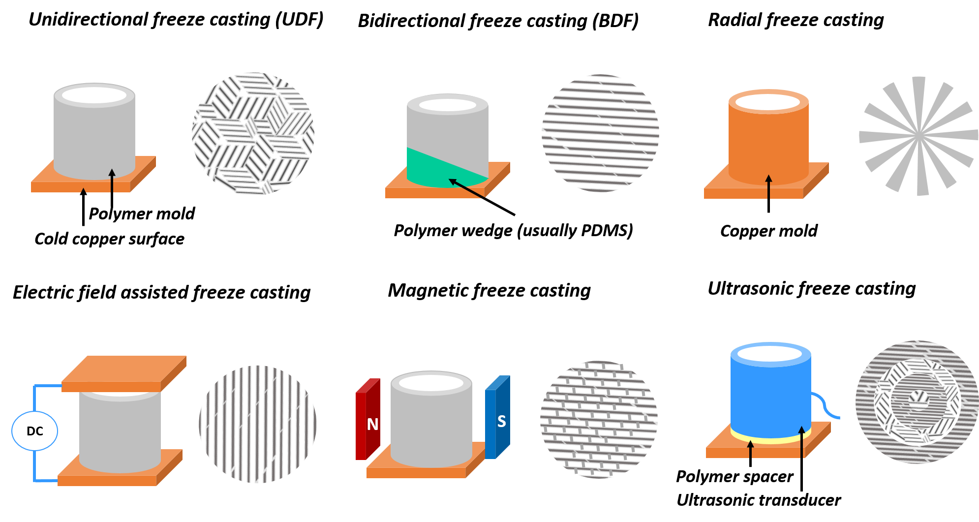 A schematic showing various approaches to freeze casting and the resulting lamellar structures obtained